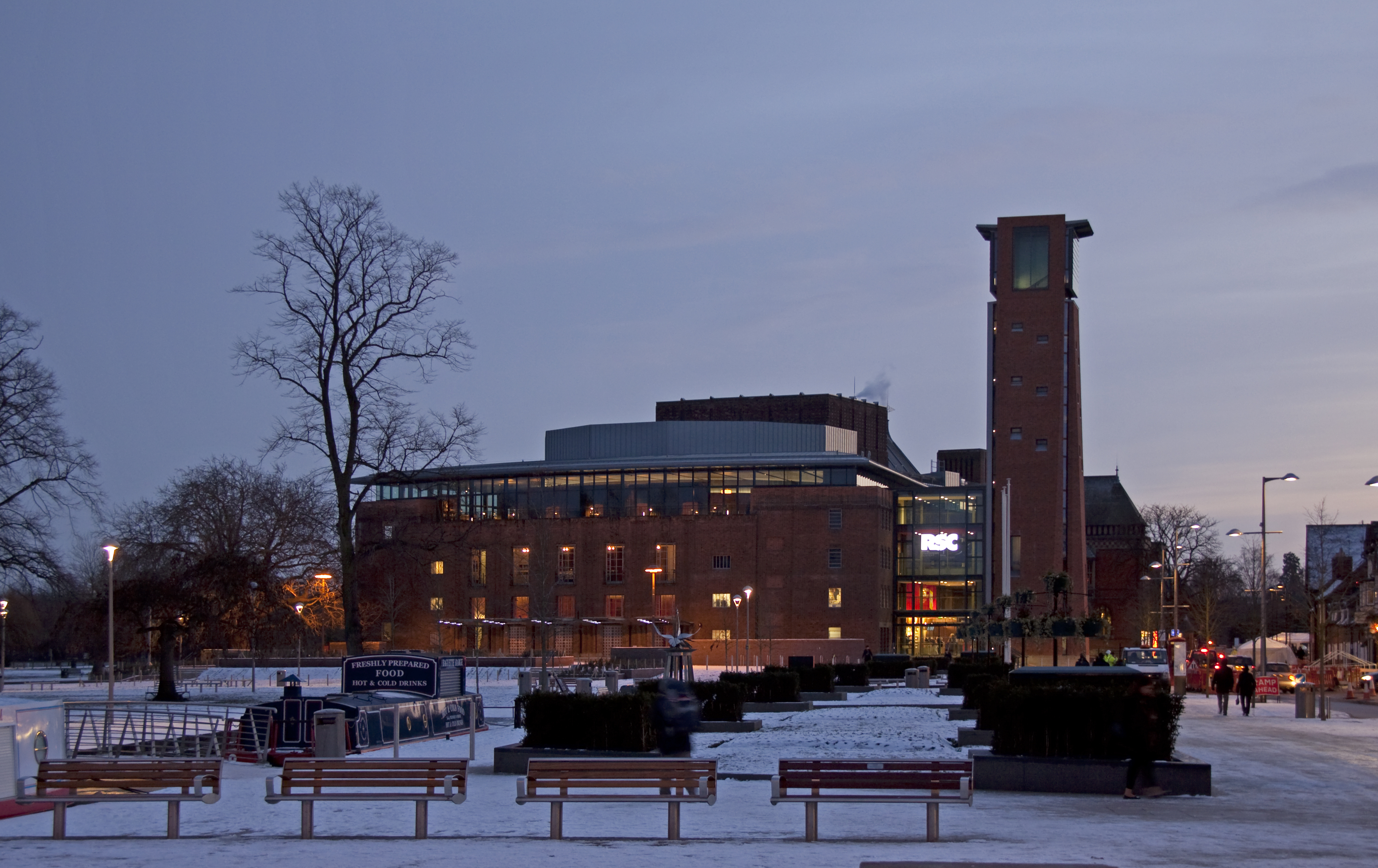 Royal Shakespeare Theatre 2